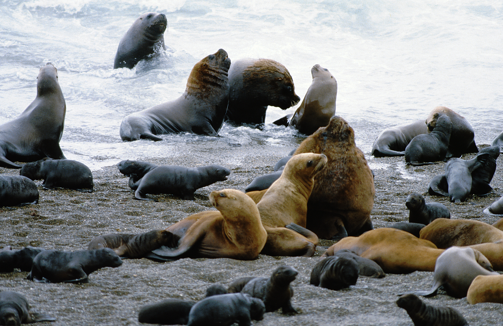 Valdes Peninsula, Patagonia (Argentina).